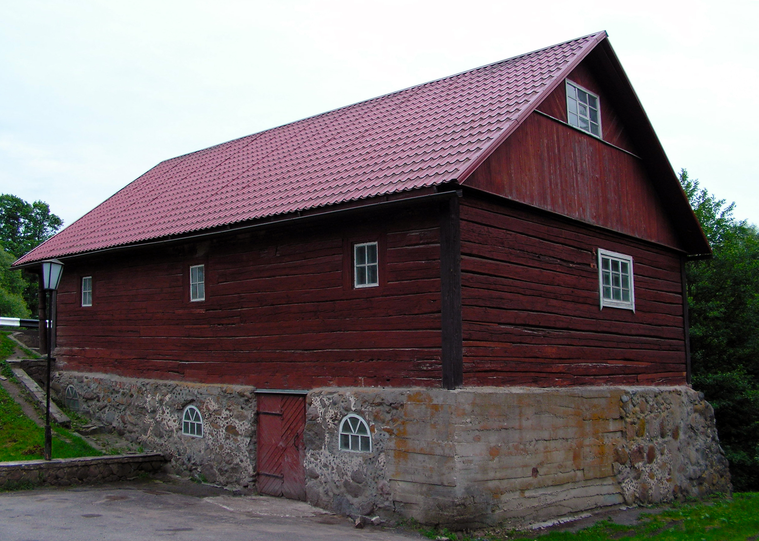 Watermill (Zhodzishki, Belarus) This is a photo of Belarusian heritage monument. Reference number: 413Г000596 ( WLM)